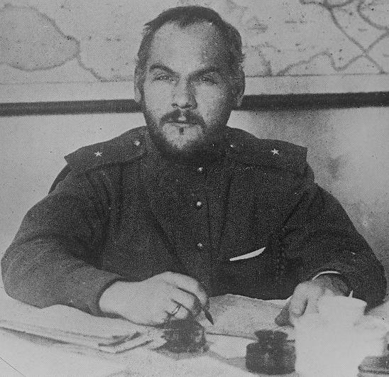 Bolshevik revolutionary Nikolai Krylenko (1885-1938)